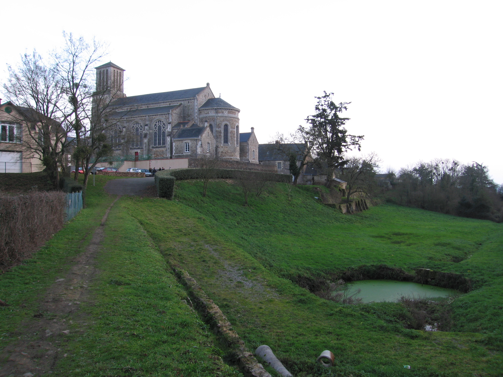 Church of Notre-Dame des Aulnes, city of La Chapelle-Launay, Loire-Atlantique, France